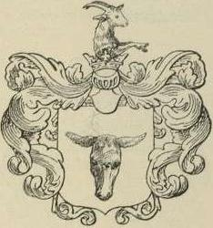 Coat of Arms Półkozic from reprint of "Nomenclator" by Wojciech Wiiuk Kojałowicz, orginal work from 1658, reprint from 1905